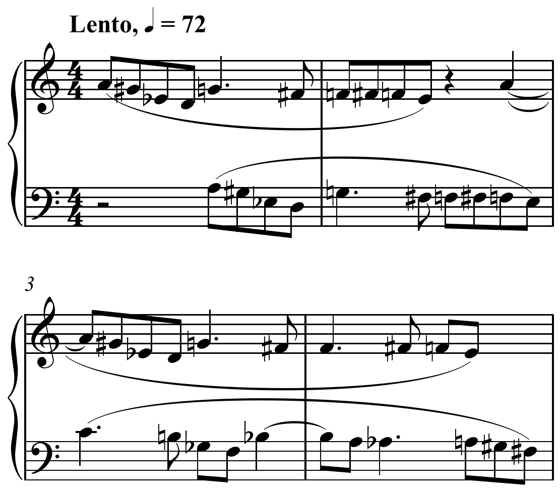 Created by Hyacinth (talk) 20:03, 21 December 2010 using Sibelius 5.